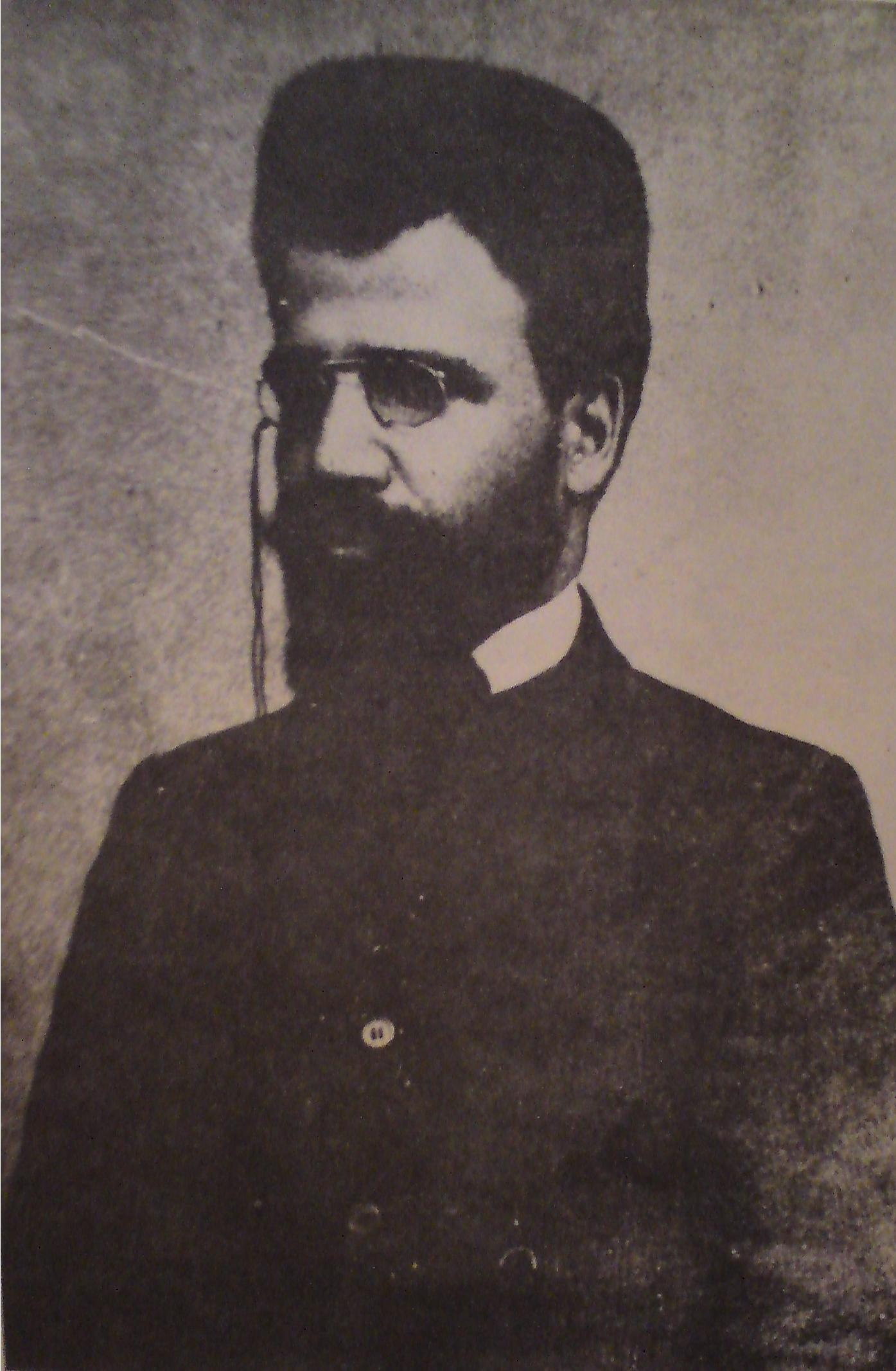 Dimitаr Vlahov as Bulgarian teacher in Kazanlak